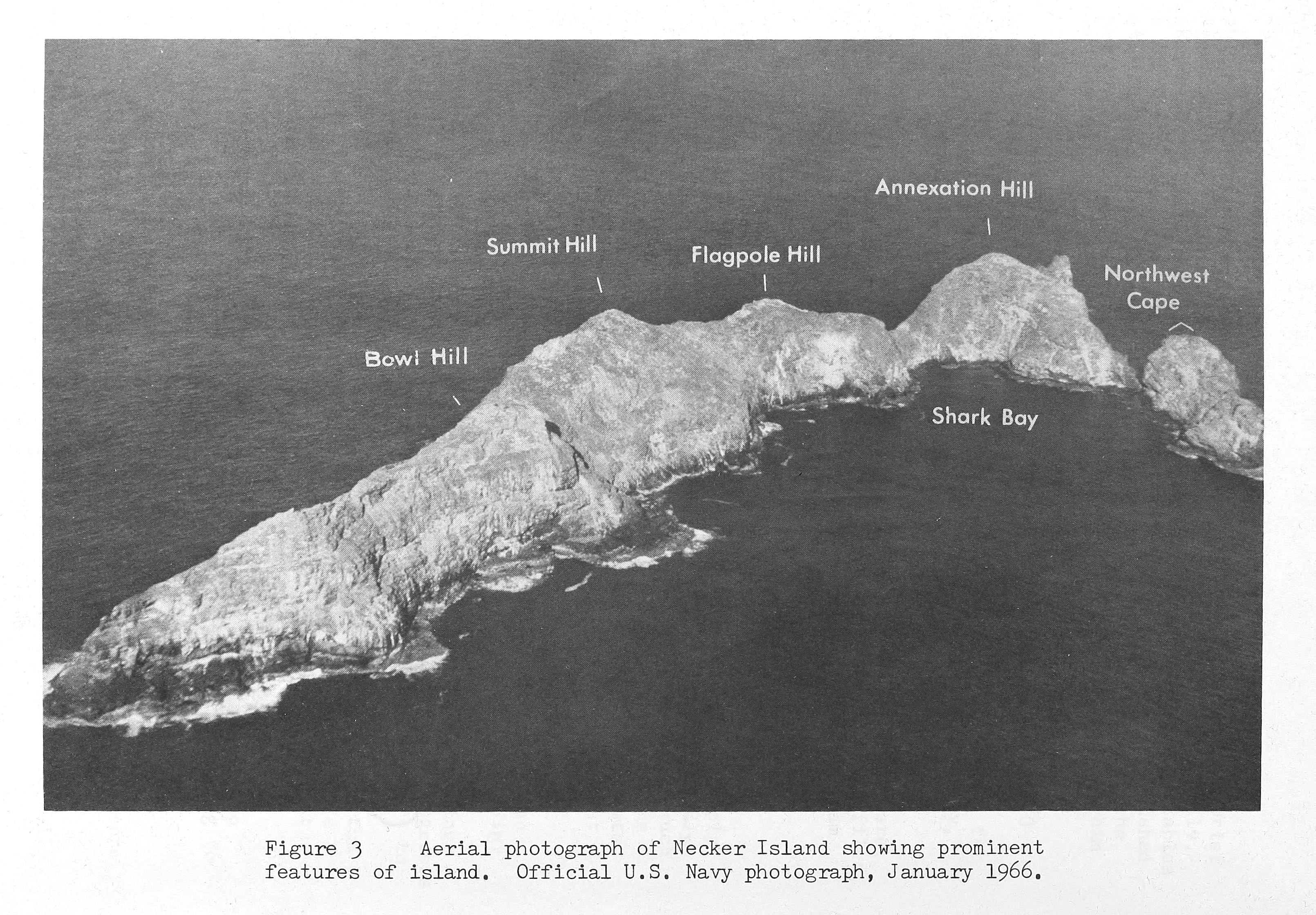 Title: Atoll research bulletin Year: 1951 (1950s) Authors: Smithsonian Institution. Press; National Research Council (U. S. ). Pacific Science Board; Smithsonian Institution; National Museum of Natural History (U. S. ); United States. Bureau of Sport Fisheries and Wildlife Subjects: Coral reefs and islands; Marine biology; Marine sciences Publisher: Washington, D. C. : (Smithsonian Press) Text Appearing Before Image: ' Text Appearing After Image: '